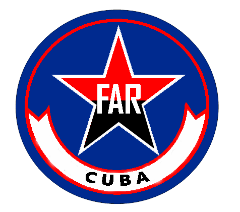 An emblem of the Cuban Revolutionary Armed Forces that's mostly used on vehicles.